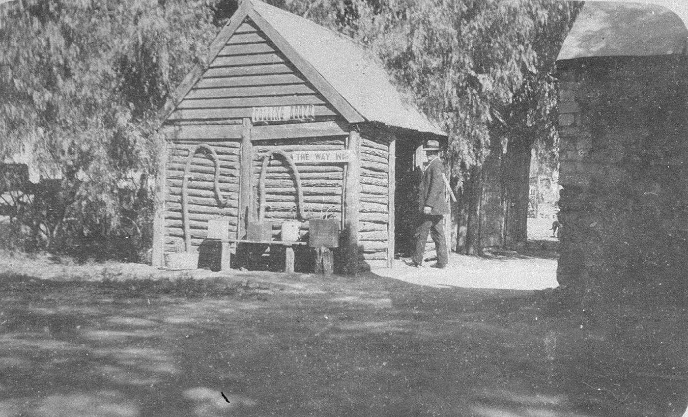 Photograph of a polling booth at the Double Gates Hotel from circa 1914. Hotel meat house and store room converted for the election in the Cobar area, NSW.